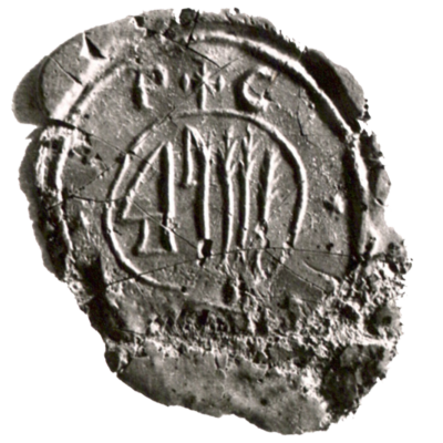 Seal of Čeláre